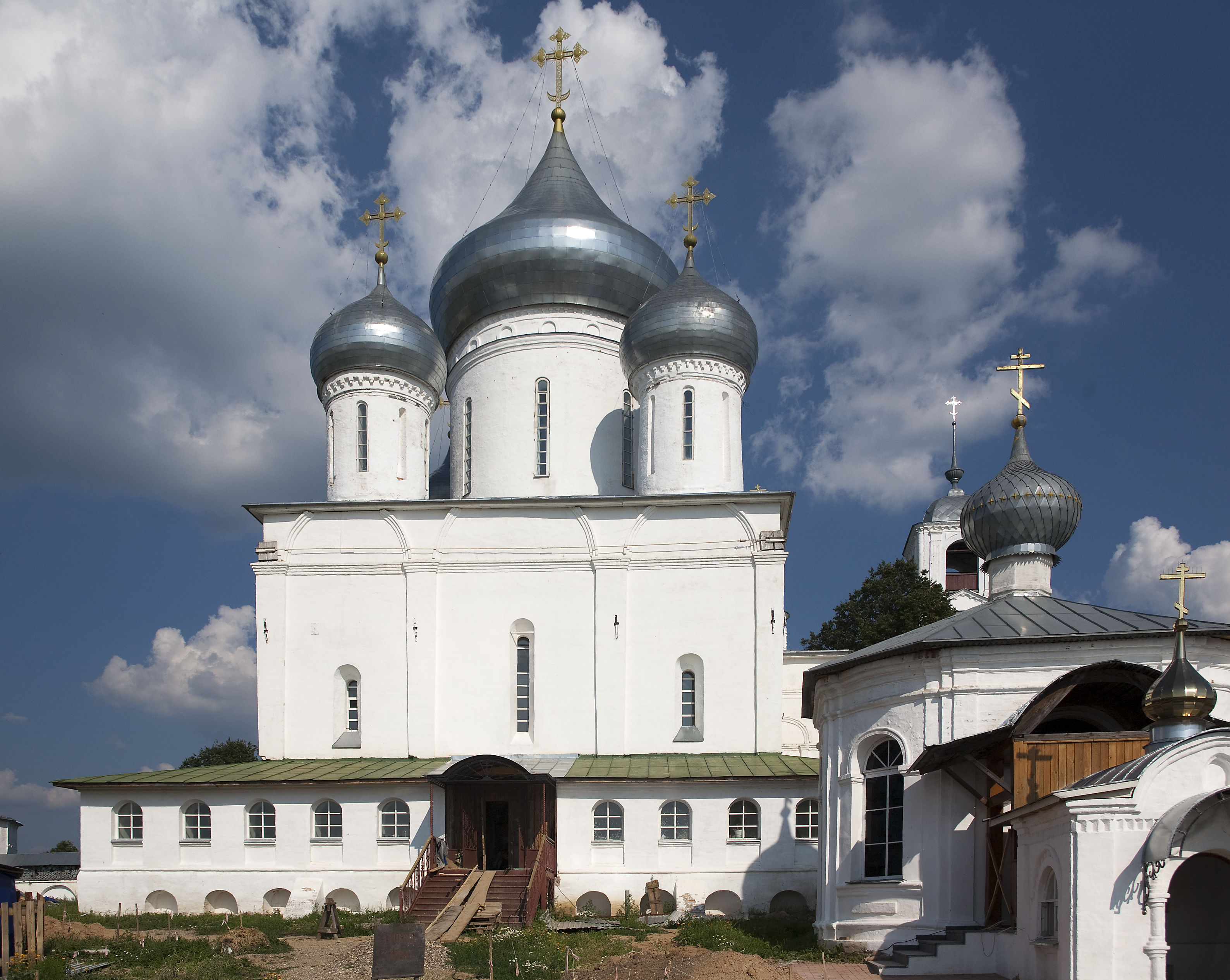 St. Nikita's Cathedral (Pereslavl-Zalessky)